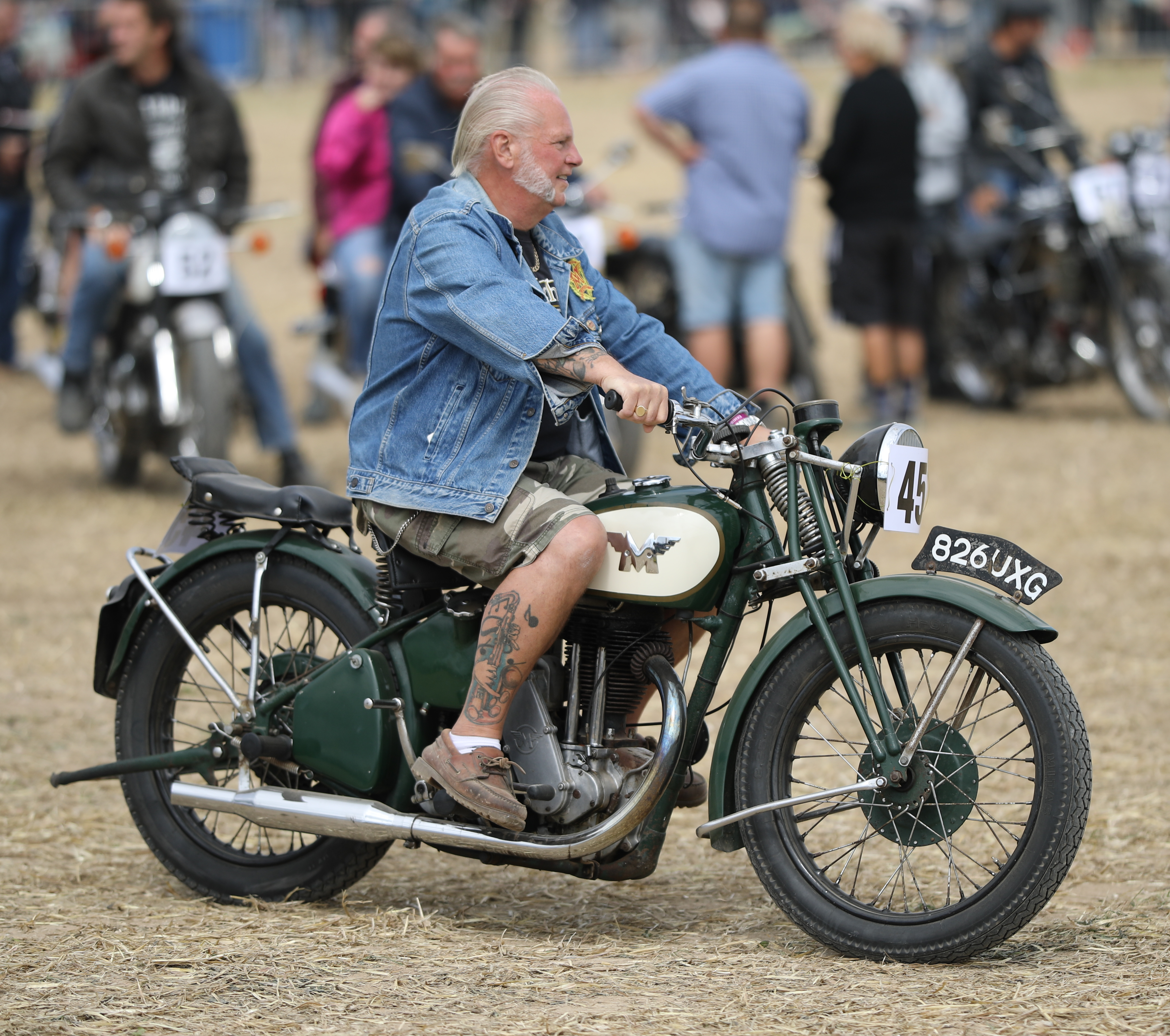 Photo of a 1939 Matchless G3 Number plate 826UXG. 2018 GDSF program number 45